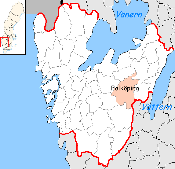 Falköping Municipality in Västra Götaland County Designed by me. Mere outlines are a PD source from